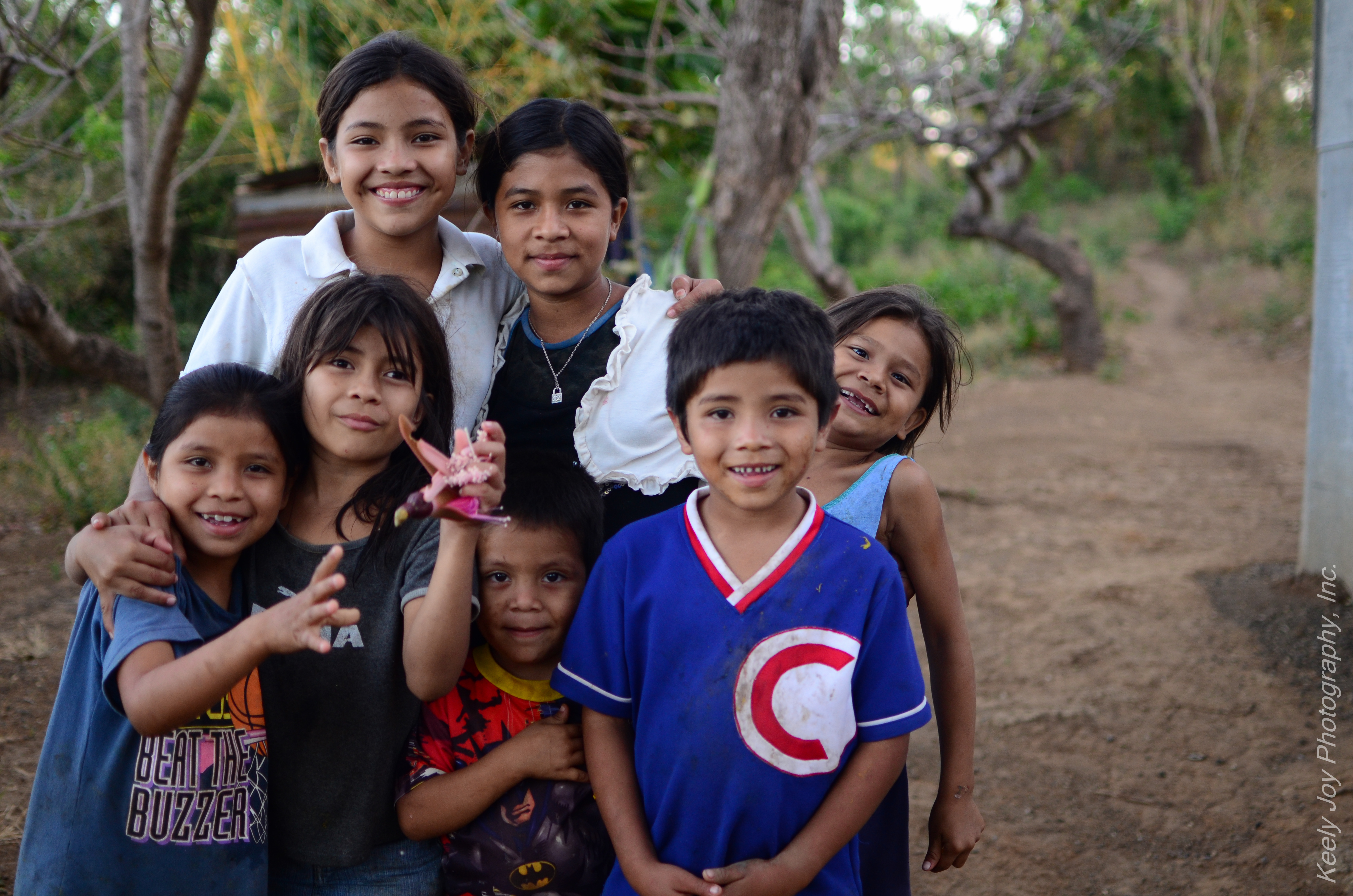 For more info on Feed My Starving Children, please visit: Photo credit: Keely Joy Photography, Inc